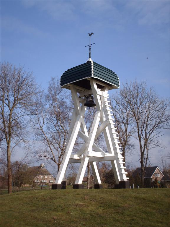 wooden bell tower in Oldeouwer, Friesland, Netherlands